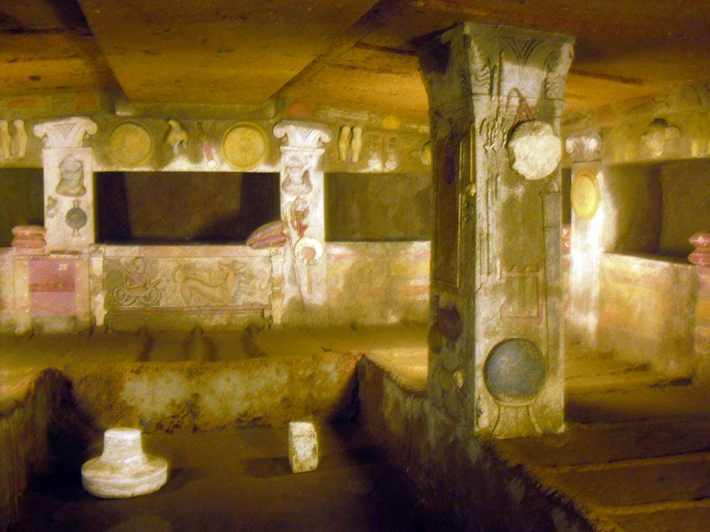 The inside of "Tomba dei rilievi", an ancient Etruscan tomb in the necropolis of Banditaccia